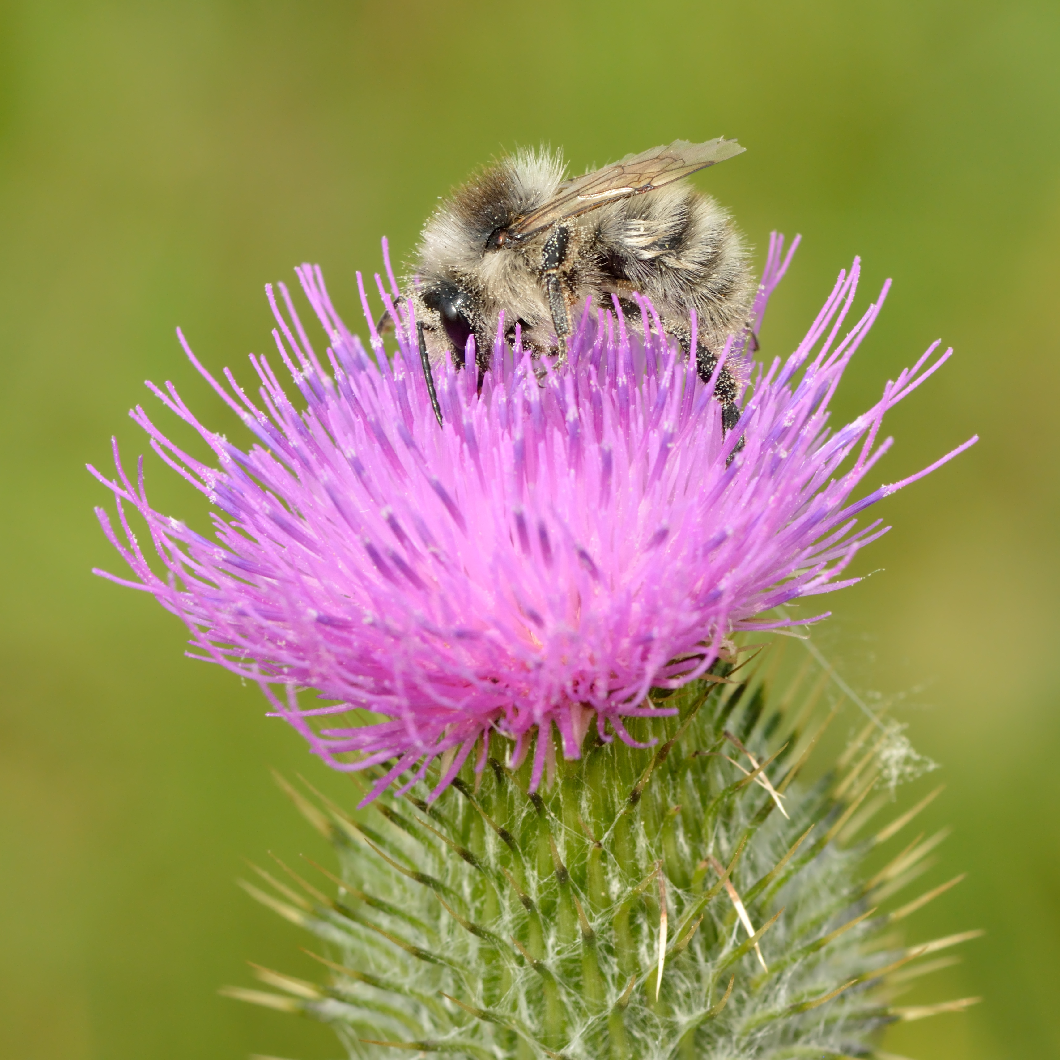 Sand bumblebee (Bombus veteranus) on the spear thistle (Cirsium vulgare). Keila, Northwestern Estonia.